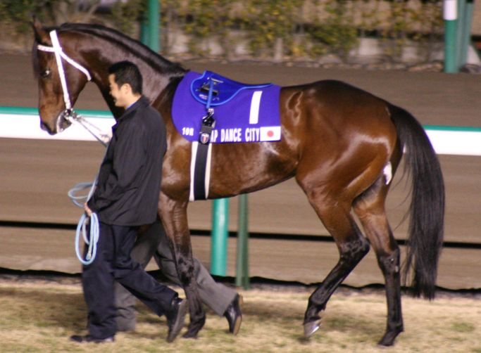 Tap Dance City(Horse, Nakayama Racecourse)